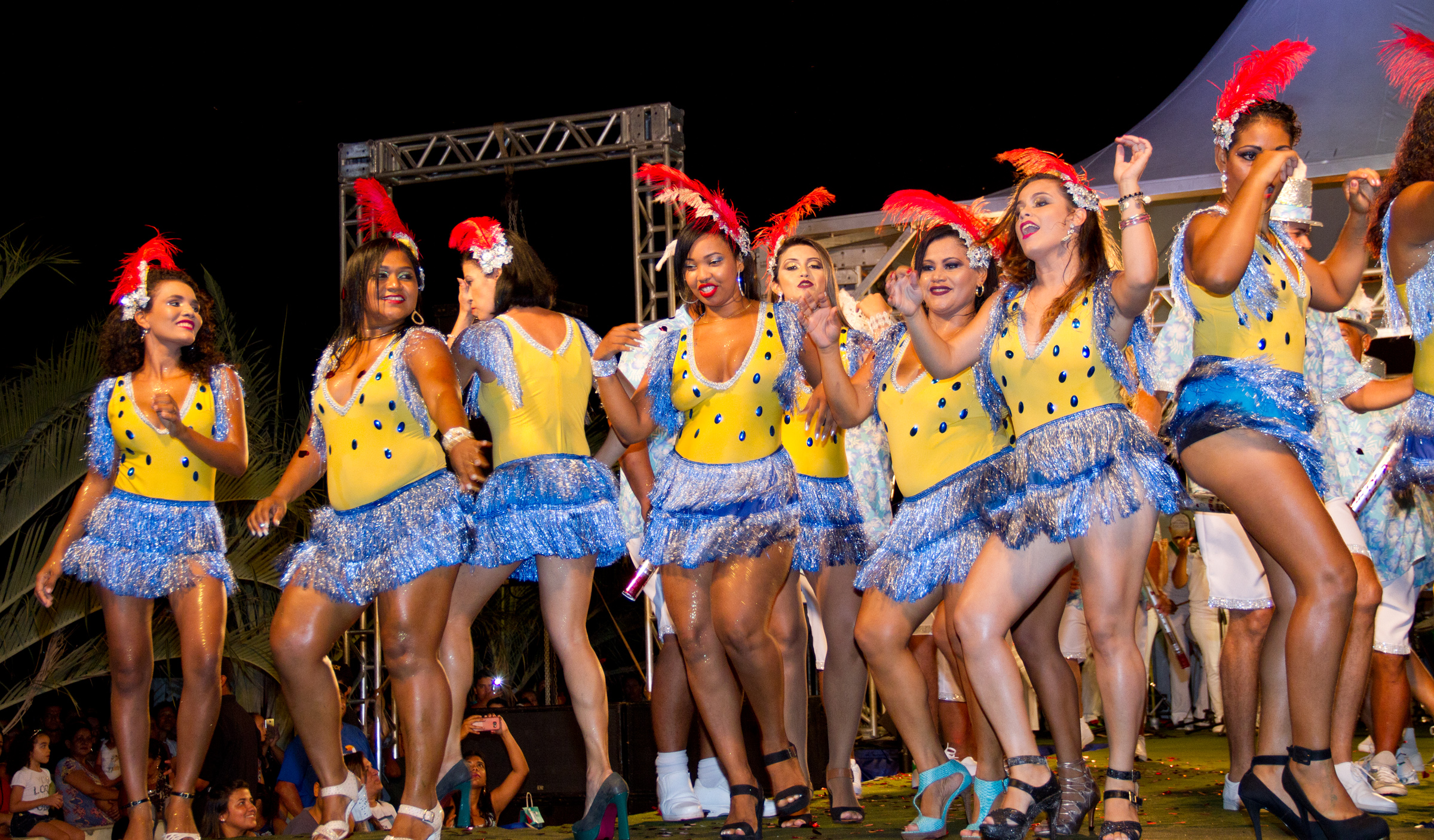 Would-be Carnaval Queens compete at the annual selection in an open-air competition on Corumbá's Avenida Rondon. The competition chooses the queen and princesses for the annual Carnaval de Corumbá.